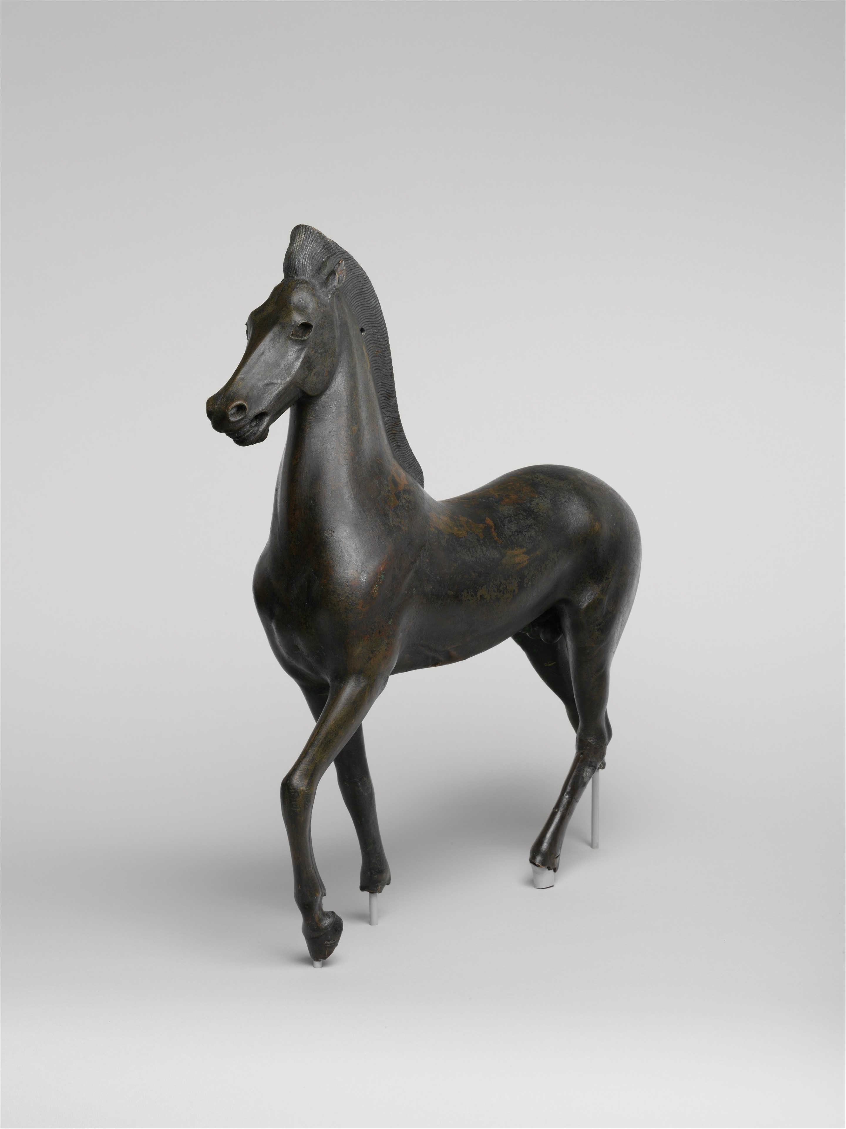 Greek; Statuette of a horse; Bronzes